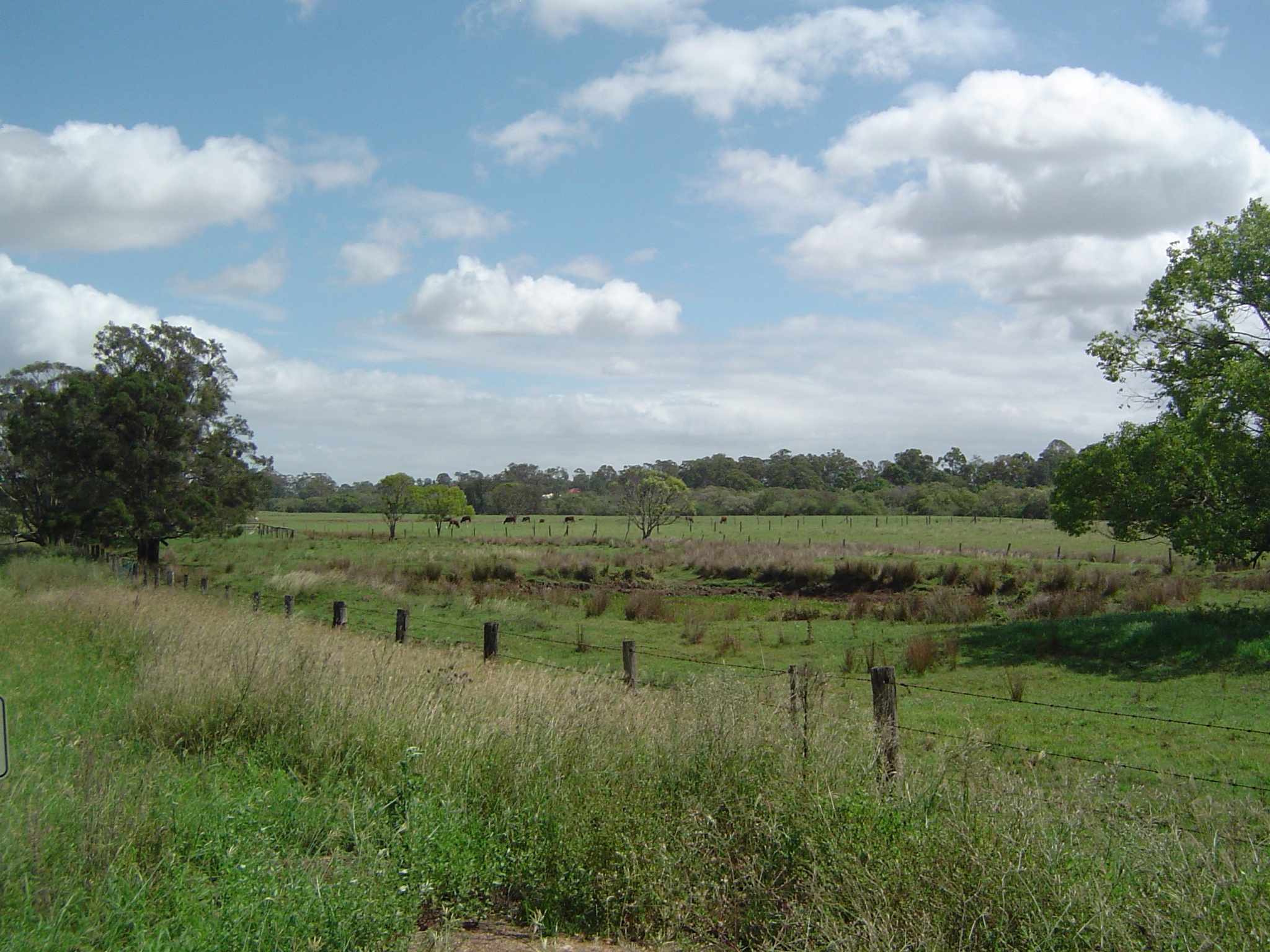 Photo of cattle paddocks along Bruckner Road at Stapylton, Queensland, Australia